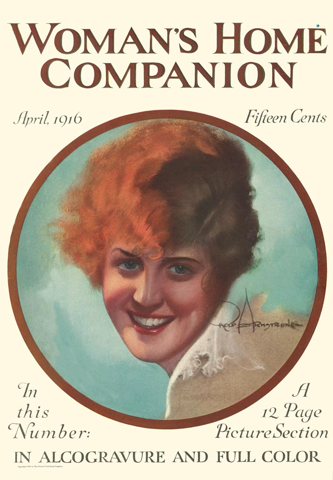 Womans Home Companion magazine cover, April 1916